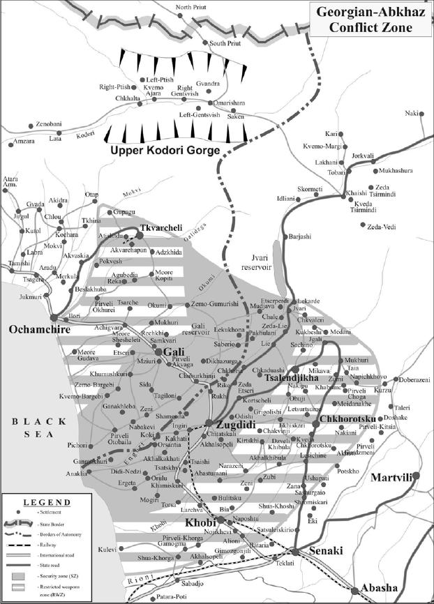 Georgian-Abkhaz conflict zone as of June 2008.